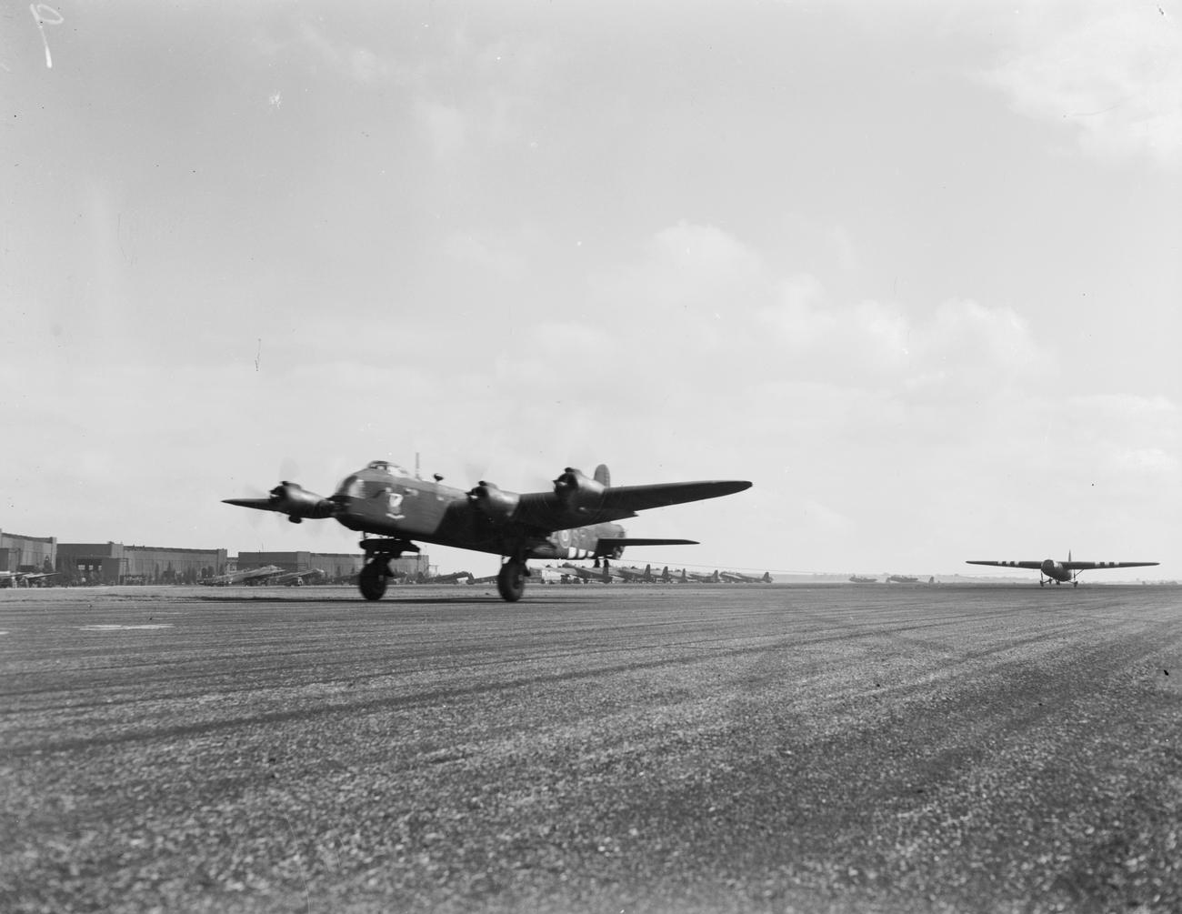 A Short Stirling Mark IV (LK115, '8S-Z') of No. 295 Squadron RAF, taking off from Harwell, Oxfordshire (UK), towing an Airspeed Horsa glider. This was one of 25 Stirling/Horsa combinations which carried the Headquarters of I Airborne Corps to landing zones near Groesbeek, Nijmegen.